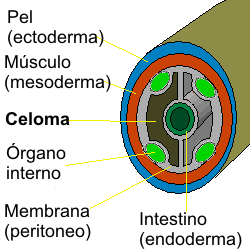 Basic structure of a coelomate animal.